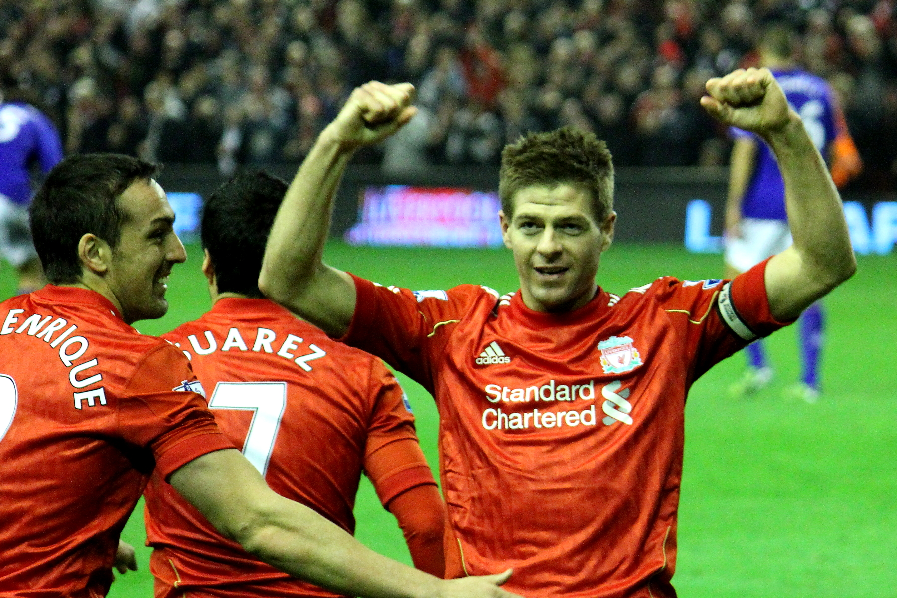 Gerrard celebrates his second goal v Everton in 2012